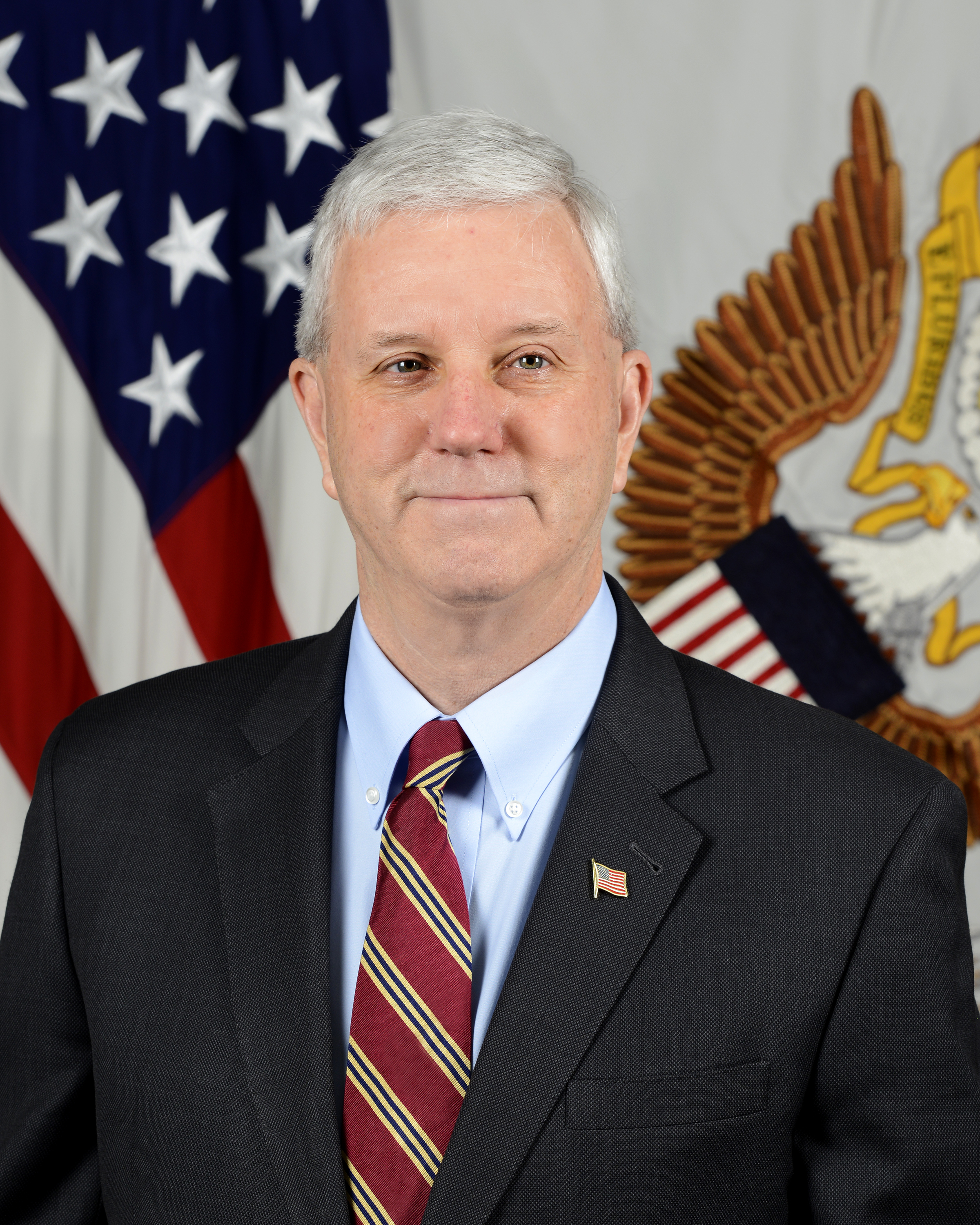 James E. McPherson, General Counsel for the Department of the Army, poses for his official portrait in the Army portrait studio at the Pentagon in Arlington, Virginia, Dec. 29, 2017. (U.S. Army photo by William Pratt)